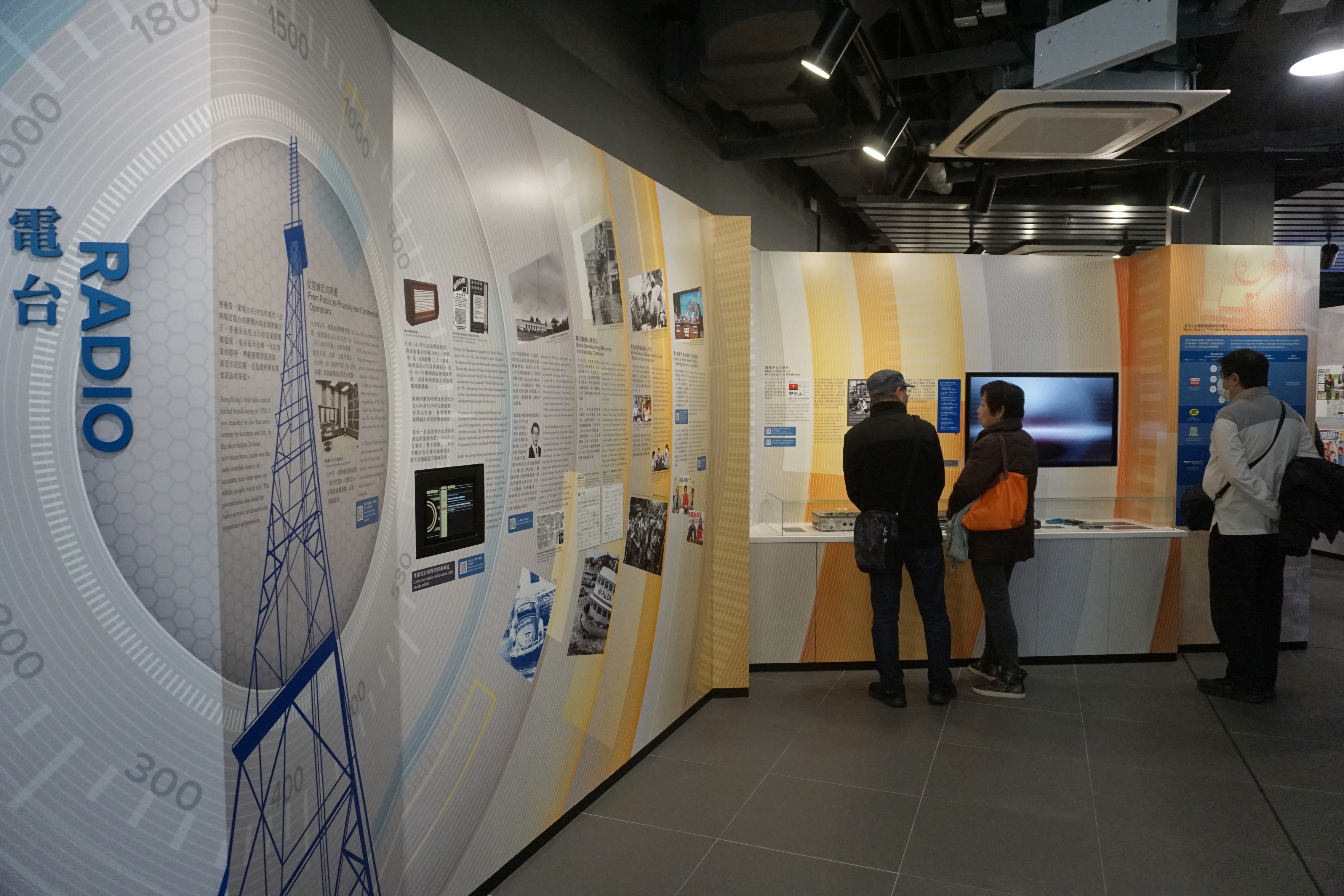 Hong Kong News-Expo in Central, Hong Kong.